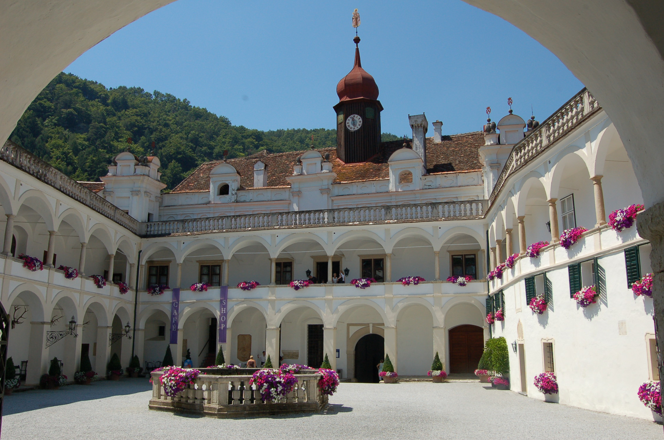 Renaissance style courtyard of Herberstein castle, Styria